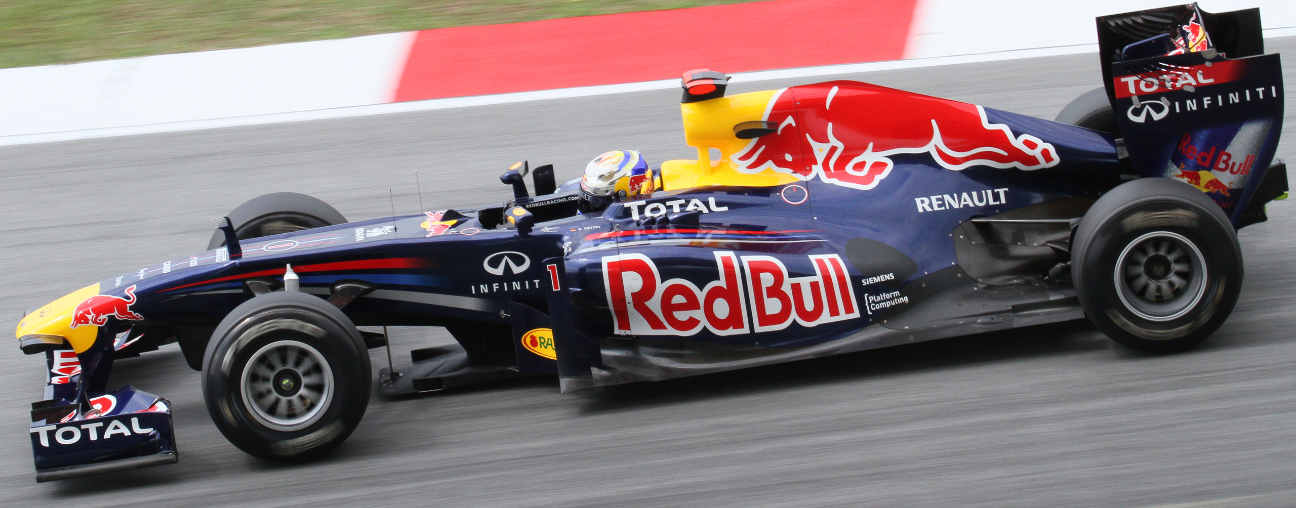 Formula One 2011 Rd.2 Malaysian GP: Sebastian Vettel (Red Bull) during the first practice session on Friday.